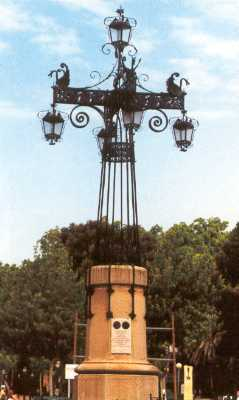 La Farola (Independence Square, Castellón de la Plana, Spain).